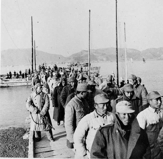 KMT prisoners of war in Battle of Yijiangshan Islands,1955